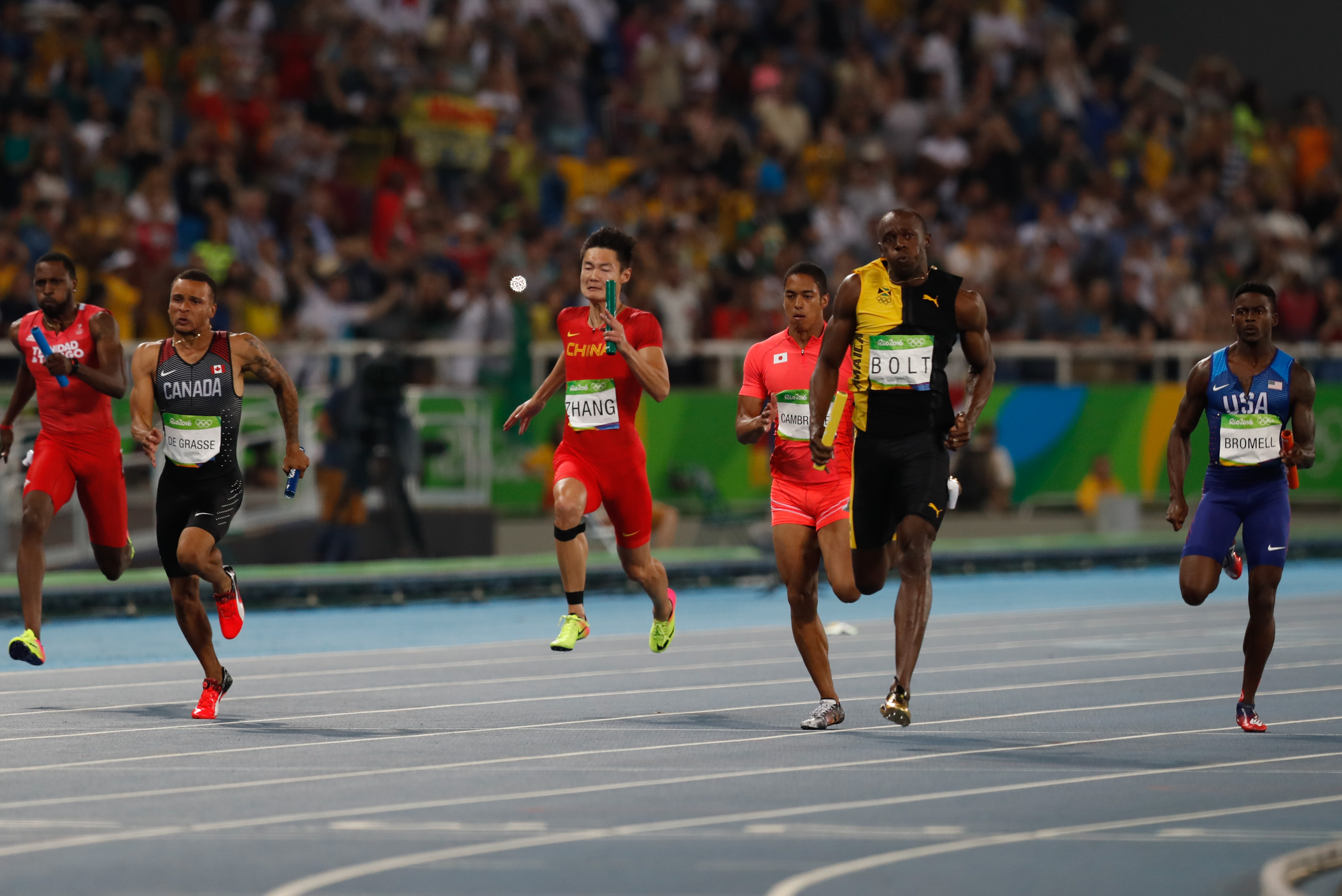 Rio de Janeiro - Usain Bolt ganha terceiro ouro nos Jogos Rio 2016 ao vencer o revezamento 4 x 100m com Asafa Powell, Yohan Blake e Nickel Ashmeade no Estádio Olímpico (Fernando Frazão/Agência Brasil)